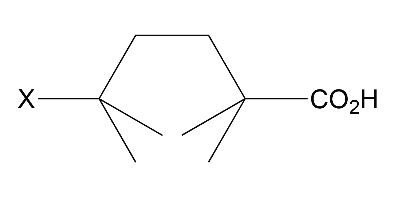 octanoic acid with an electron-withdrawing group at the 4 position